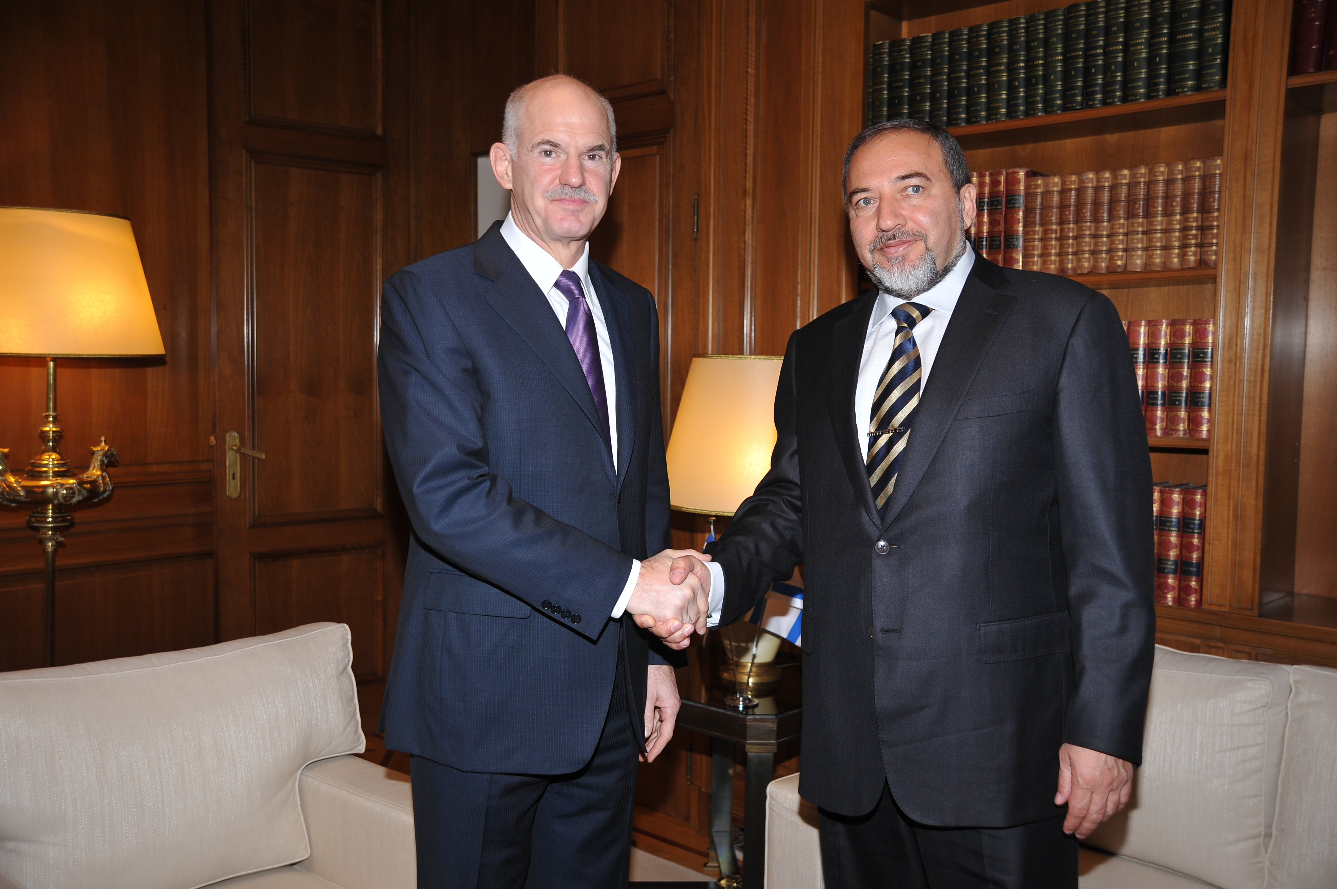 Foreign Minister Avigdor Liberman met today (13 January 2011) with Greek Prime Minister George Papandreou (Photo: MFA)